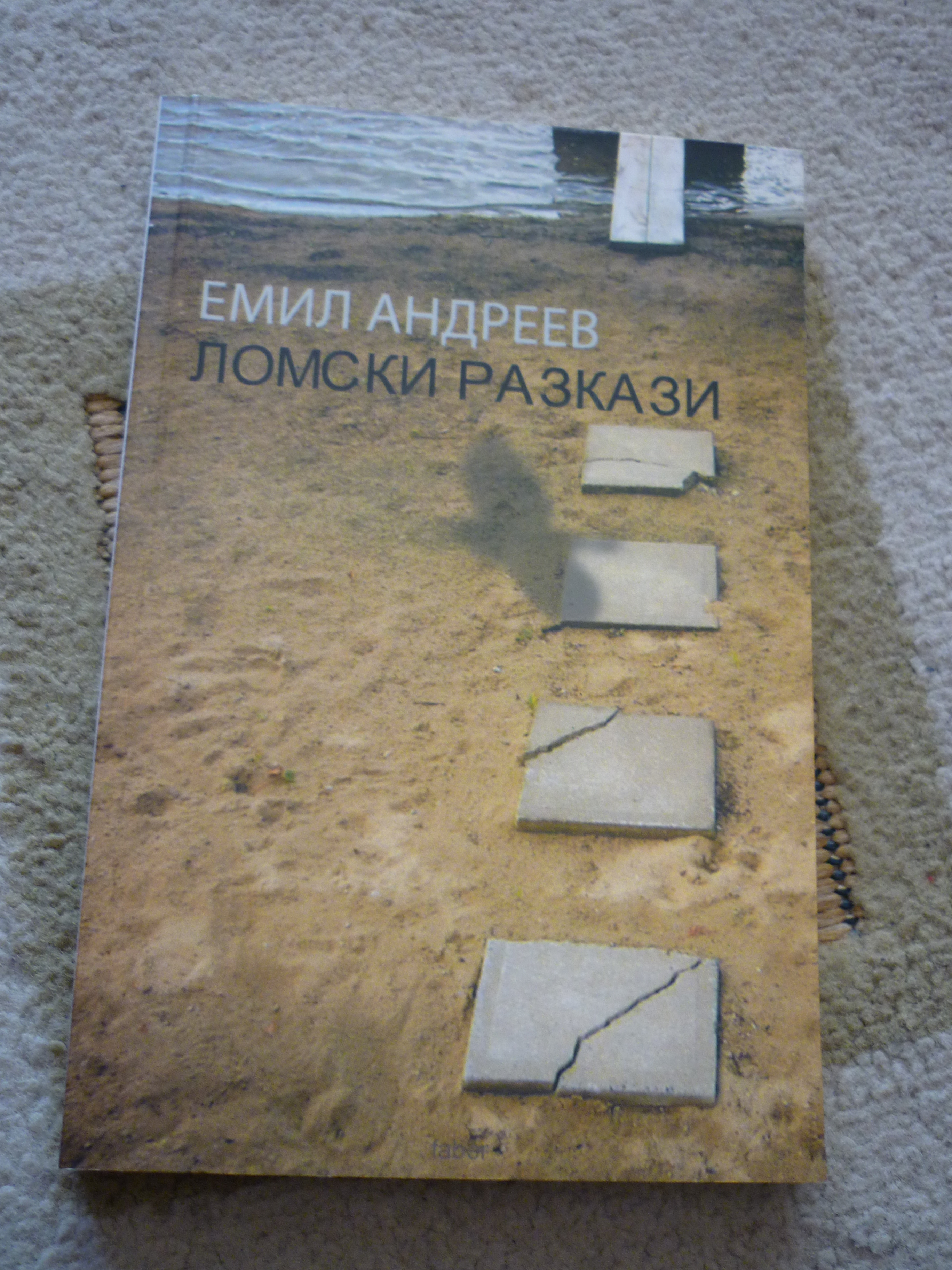 The Second Bulgarian edition of Stories from Lom by Emil Andreev.